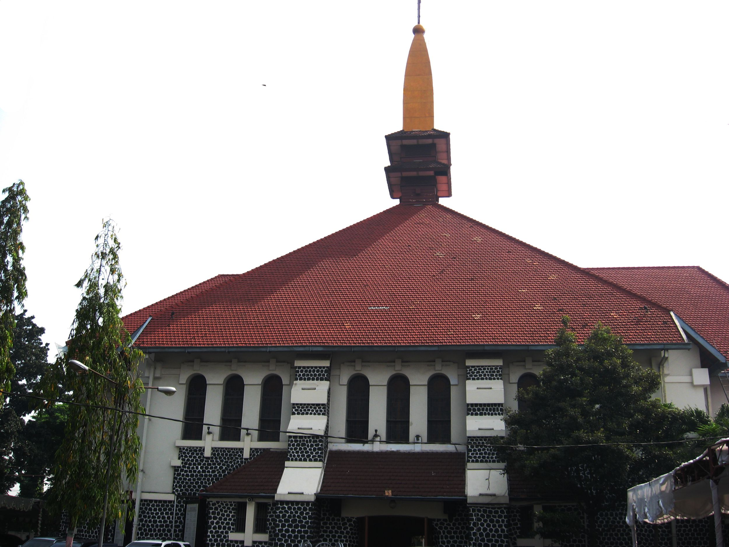 Exterior of the Semarang Cathedral in Indonesia